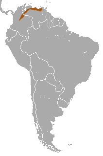 Northern Gracile Mouse Opossum (Gracilinanus marica) range